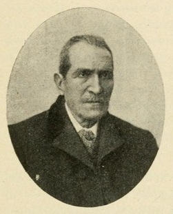 Portrait of the Italian anthropologist Antonio De Nino. In "Illustri italiani contemporanei" by Onorato Roux (Firenze, 1908)